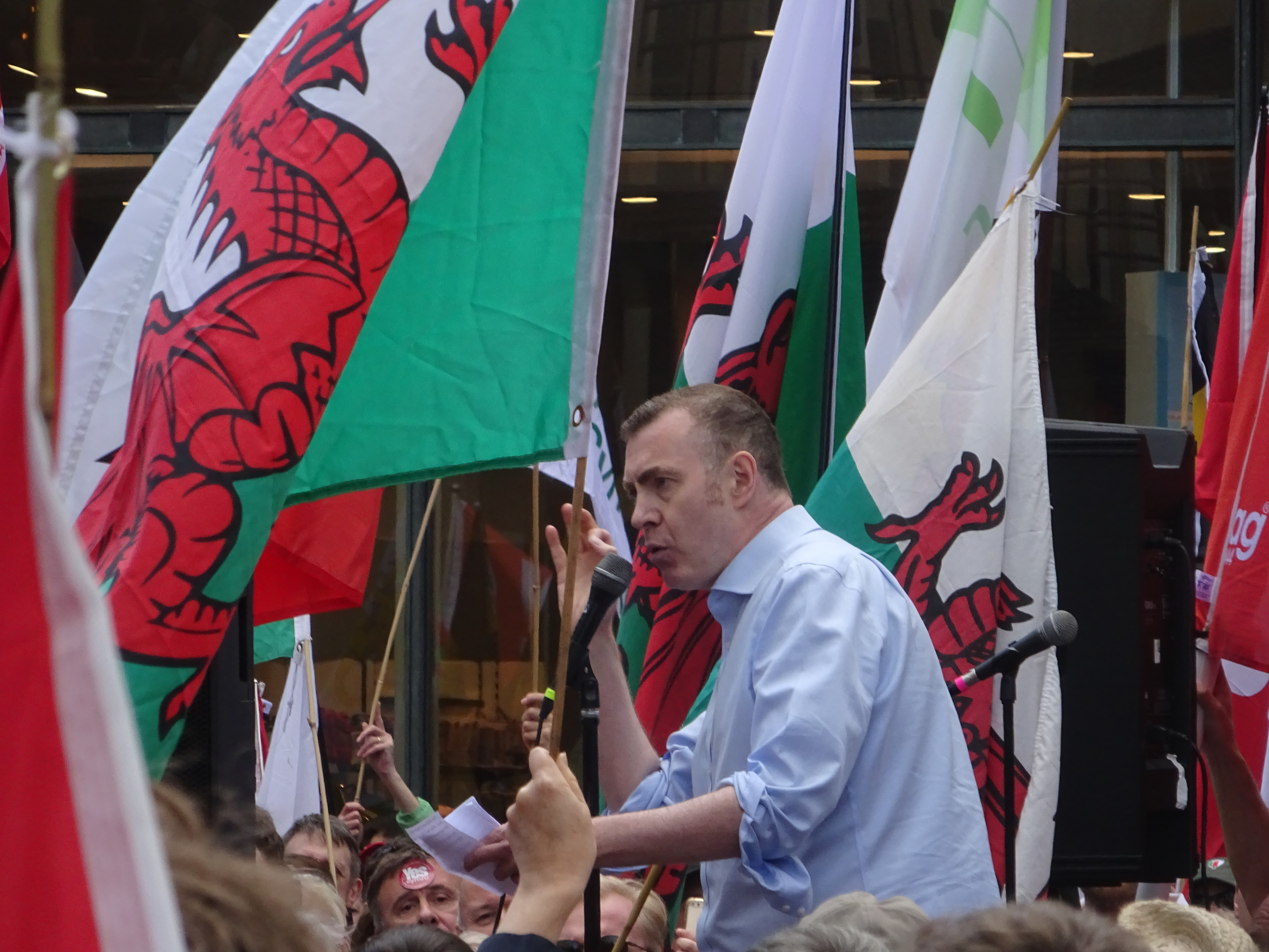 March for Welsh Independence organised by AUOB Cymru (All Under One Banner, Wales), Undod, Welsh Football Fans For Independence, Labour for an Independent Wales and Yes is More. Around 3,000 people from all political parties gathered in front of City Hall (Civic Centre), Cardiff, then marched to the center of the city. 11th May 2019.